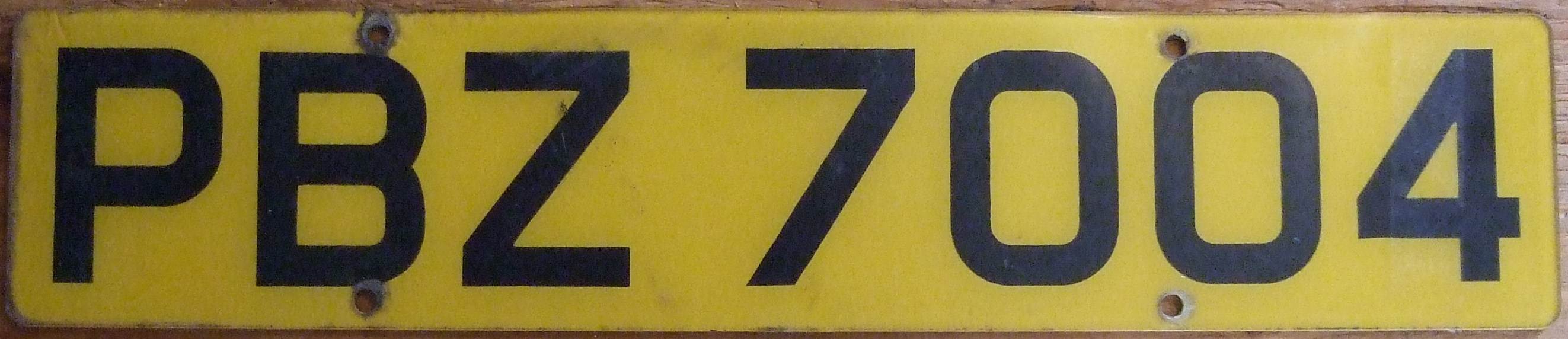 Belfast issued license plate. Black on yellow Belfast license plates were affixed to the rear of the vehicle, black on white plates on the front bumper.